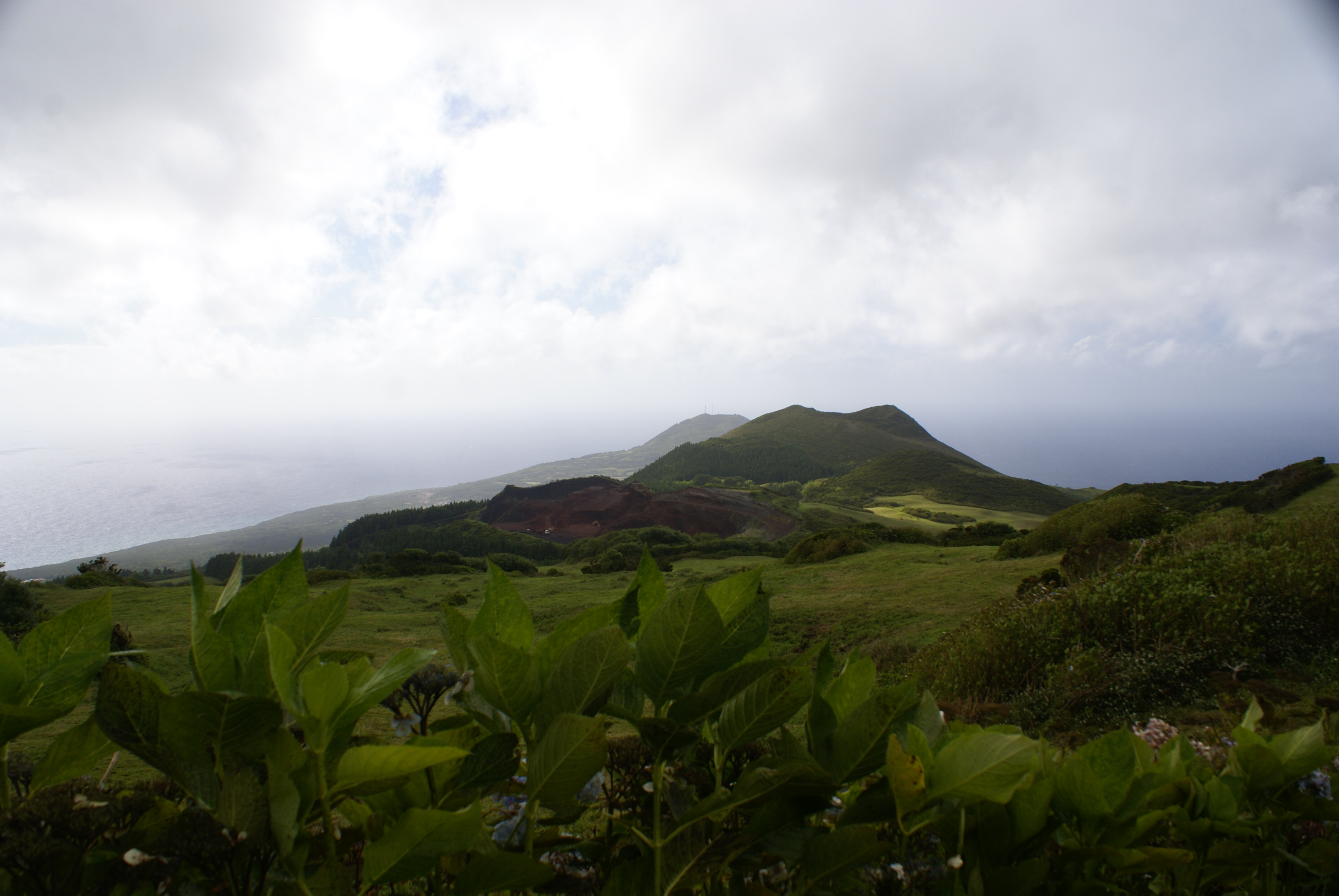 Cabeço dos Trinta, Interior da ilha do Faial, Açores, Portugal